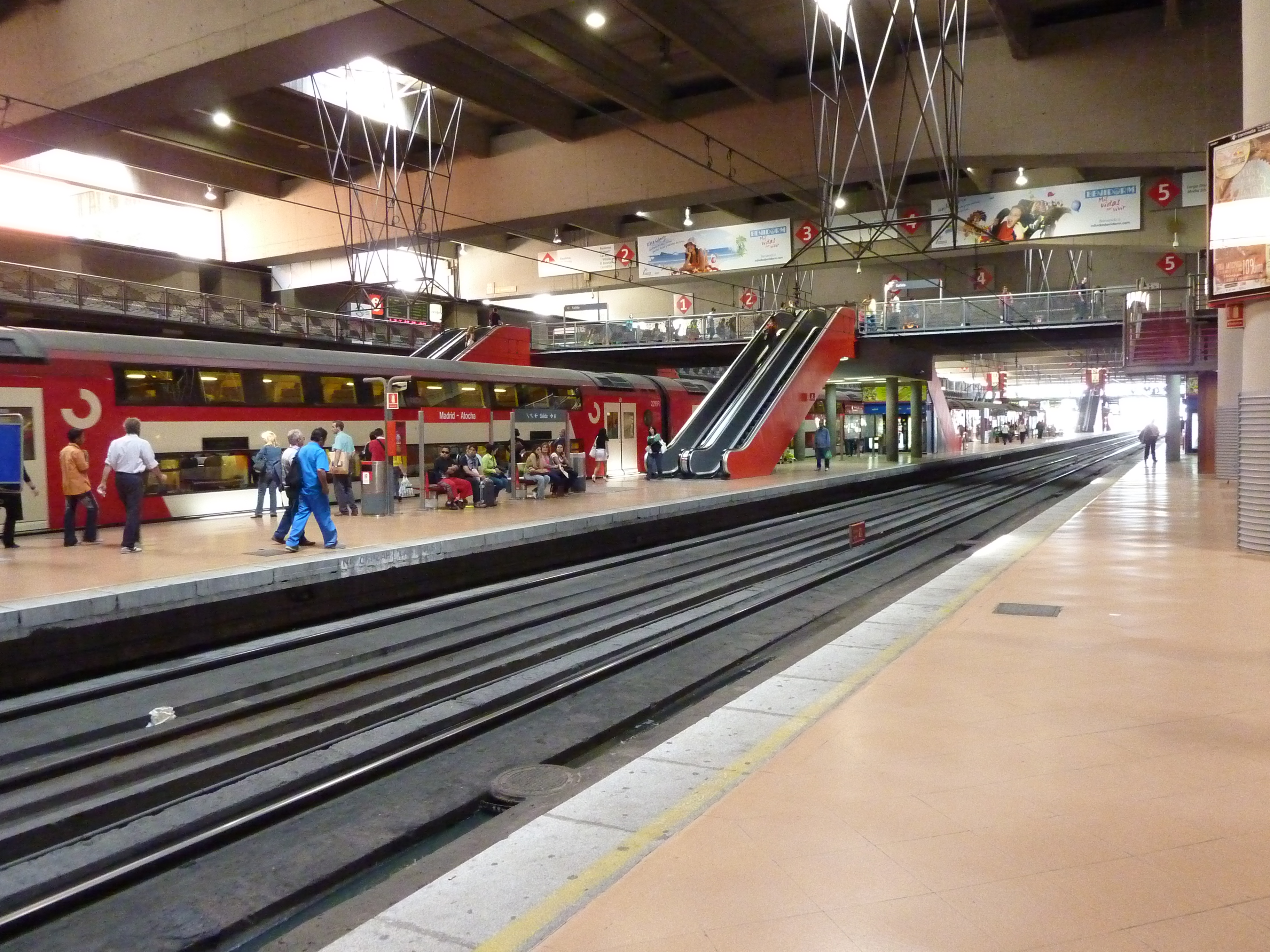 Railway station Madrid Atocha in Spain